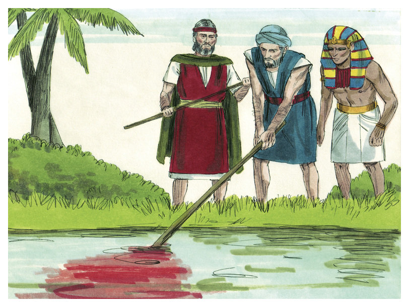 Biblical illustration of Book of Exodus Chapter 8